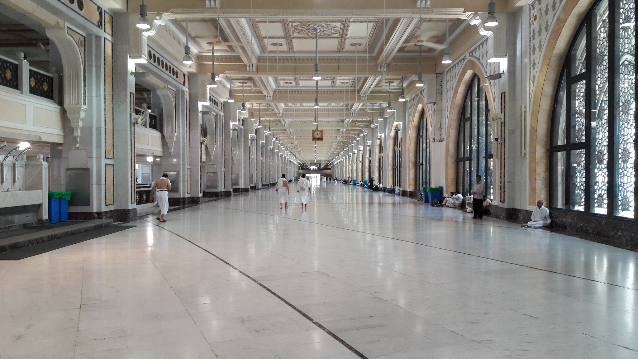 Mas'aa